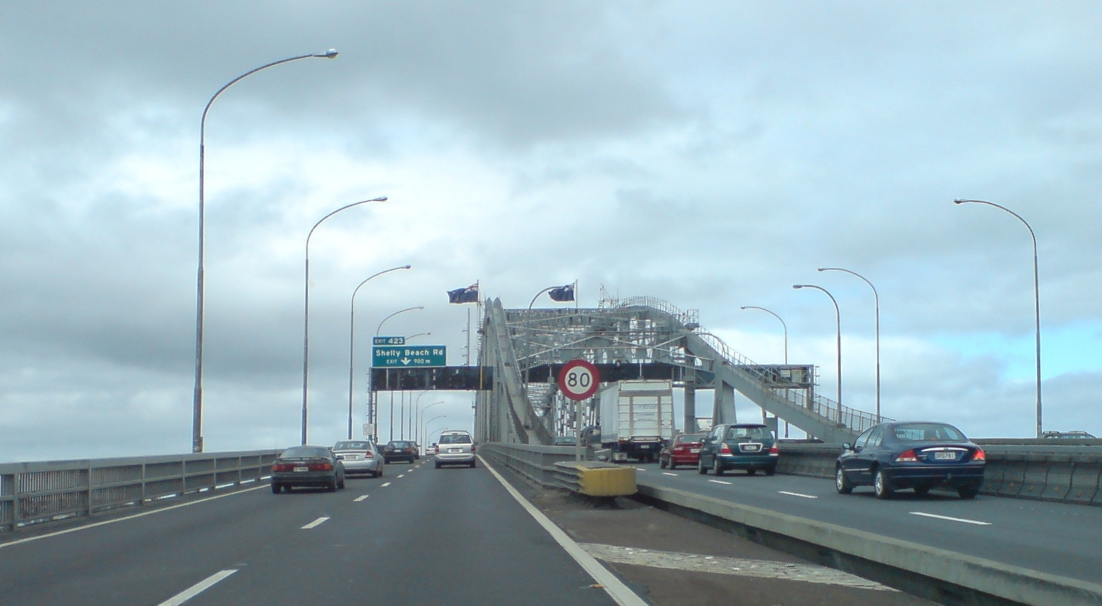 Auckland Harbour Bridge, New Zealand, coming from North Shore City. Driving on the inside eastern 'Nippon clip-on' lanes.